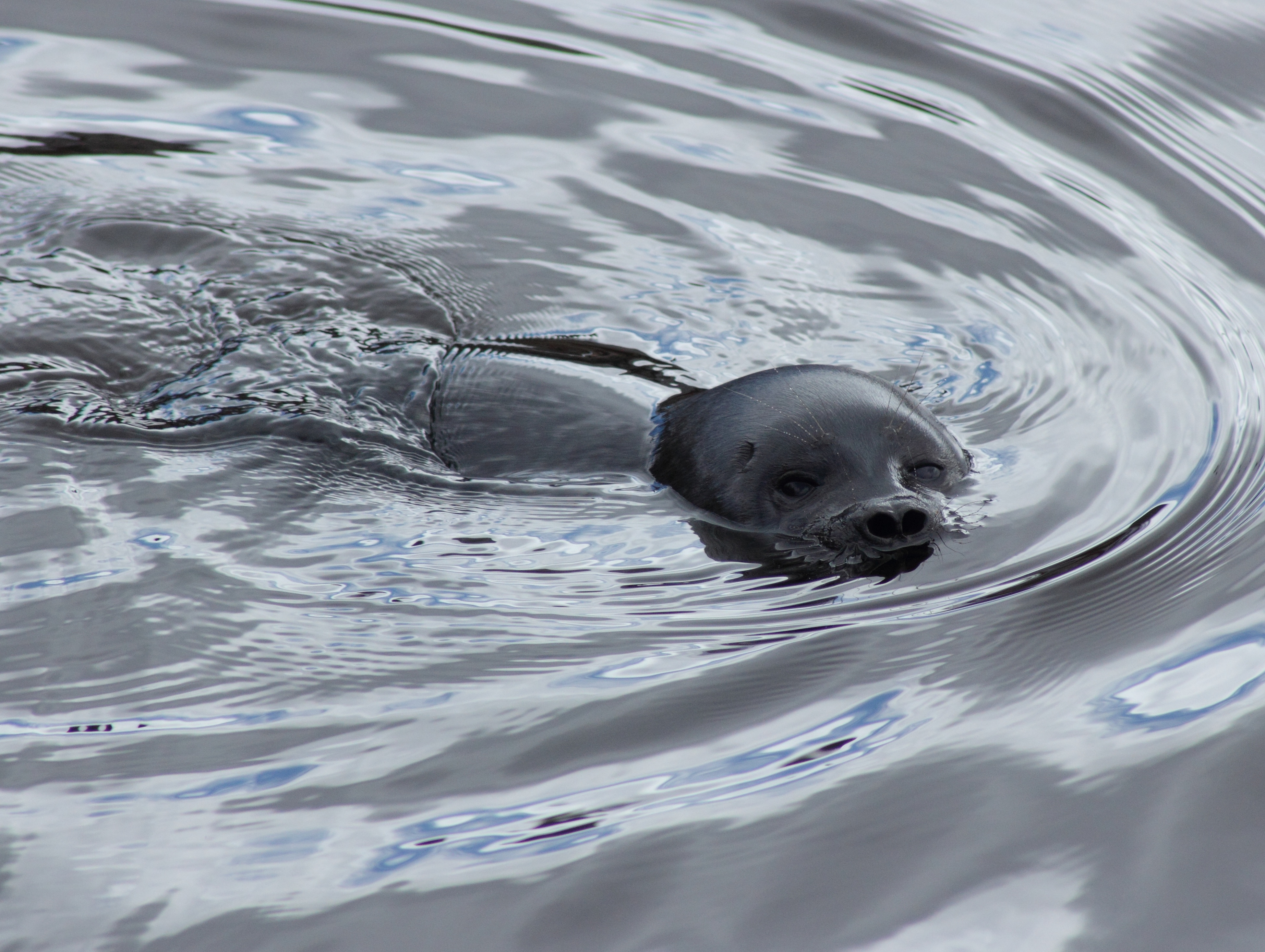 A young Ringed Seal (of the Gulf of Bothnia) (Pusa hispida botnica) in the Taskisenperä marina in Oulu, Finland.